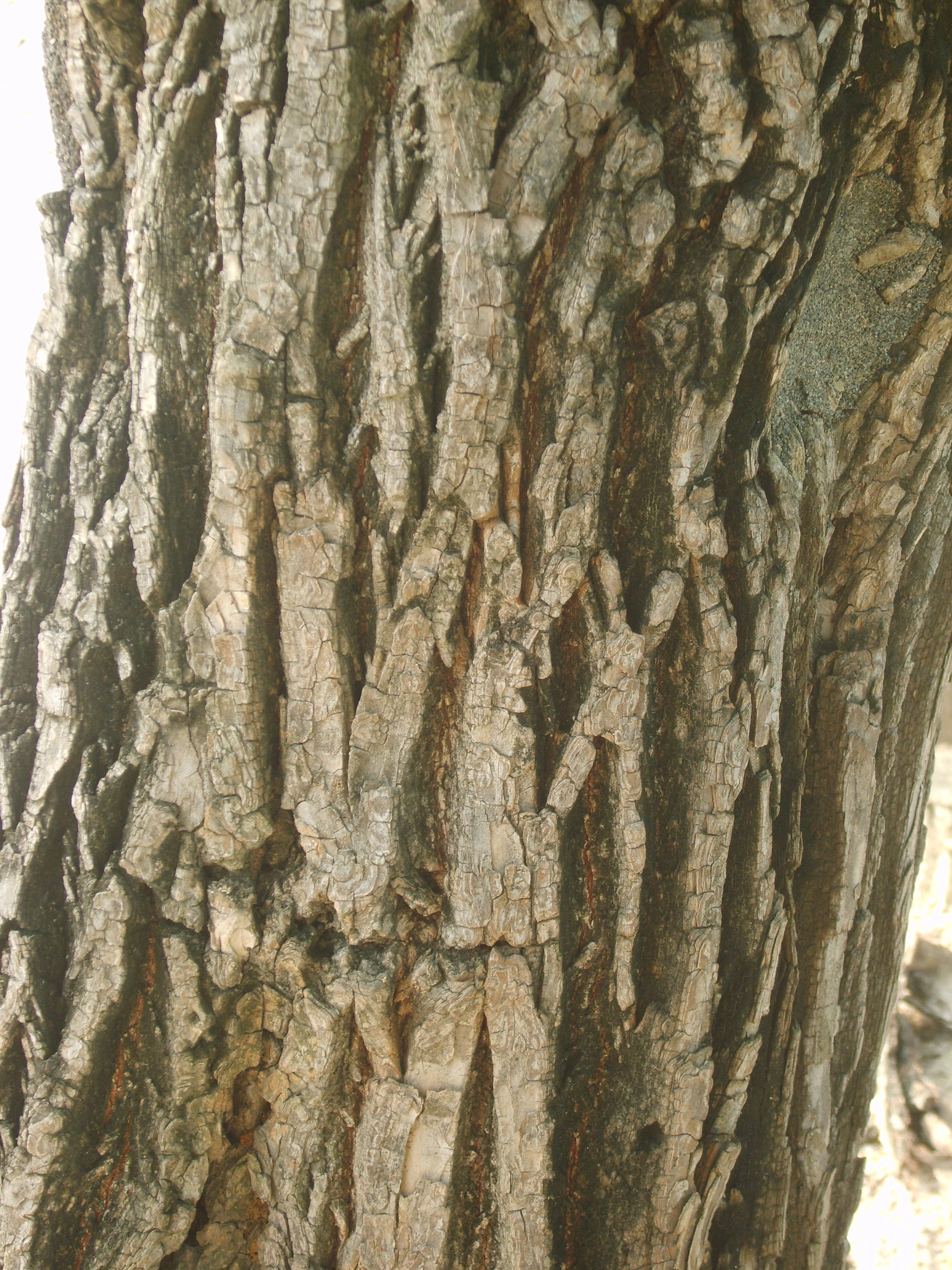 Hemiptelea davidii's bark around Hyangwonjeong in Gyeongbokgung palace, Korea